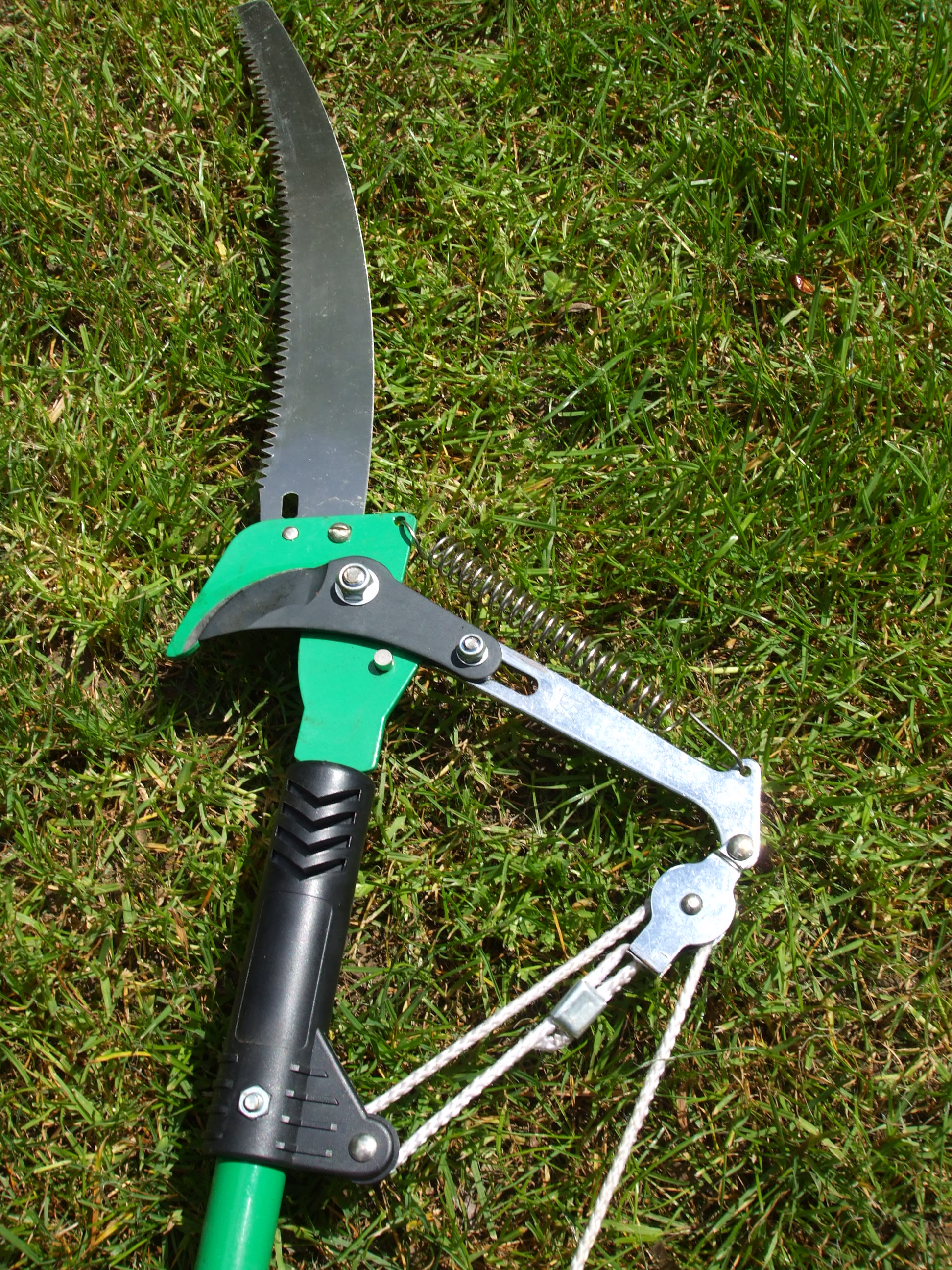 Pole pruner's saw and lopper-clipper, for pruning trees and tall shrubs.